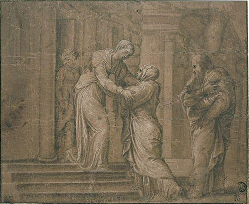 Visitation Artist Pietro Negroni (1505–1565) Alternative names Pietro Negrone; Giovane Zingaro; Missaglia; Pietro Nigrone; Zingarello; ZingaroDescriptionItalian painterDate of birth/death circa 1505 date QS:P,+1505-00-00T00:00:00Z/9,P1480,Q5727902 1565Location of birth/death Cosenza CalabriaWork location ItalyAuthority control : Q3904110 VIAF: 47942555 ISNI: 0000 0000 6687 609X ULAN: 500044324 LCCN: nr92014933 Open Library: OL792473A WorldCat creator QS:P170,Q3904110Title Visitationlabel QS:Len,"Visitation"label QS:Lit,"Visitazione"Date 16th century date QS:P571,+1550-00-00T00:00:00Z/7Medium ink on cardboardmedium QS:P186,Q127418;P186,Q389782,P518,Q861259Dimensions Height: 20.5 cm (8 ″); Width: 24.8 cm (9.7 ″) dimensions QS:P2048,20.5U174728;P2049,24.8U174728Collection Louvre Museum (Inventory)Native nameMusée du LouvreParent institutionÉtablissement public du musée du LouvreLocationParisCoordinates48° 51′ 37.42″ N, 2° 20′ 15.36″ E Established1793Web page control : Q19675 VIAF: 257711507 ISNI: 0000 0001 2260 177X ULAN: 500125189 LCCN: n80020283 NLA: 35912436 WorldCat institution QS:P195,Q19675Source/Photographer Musée du Louvre